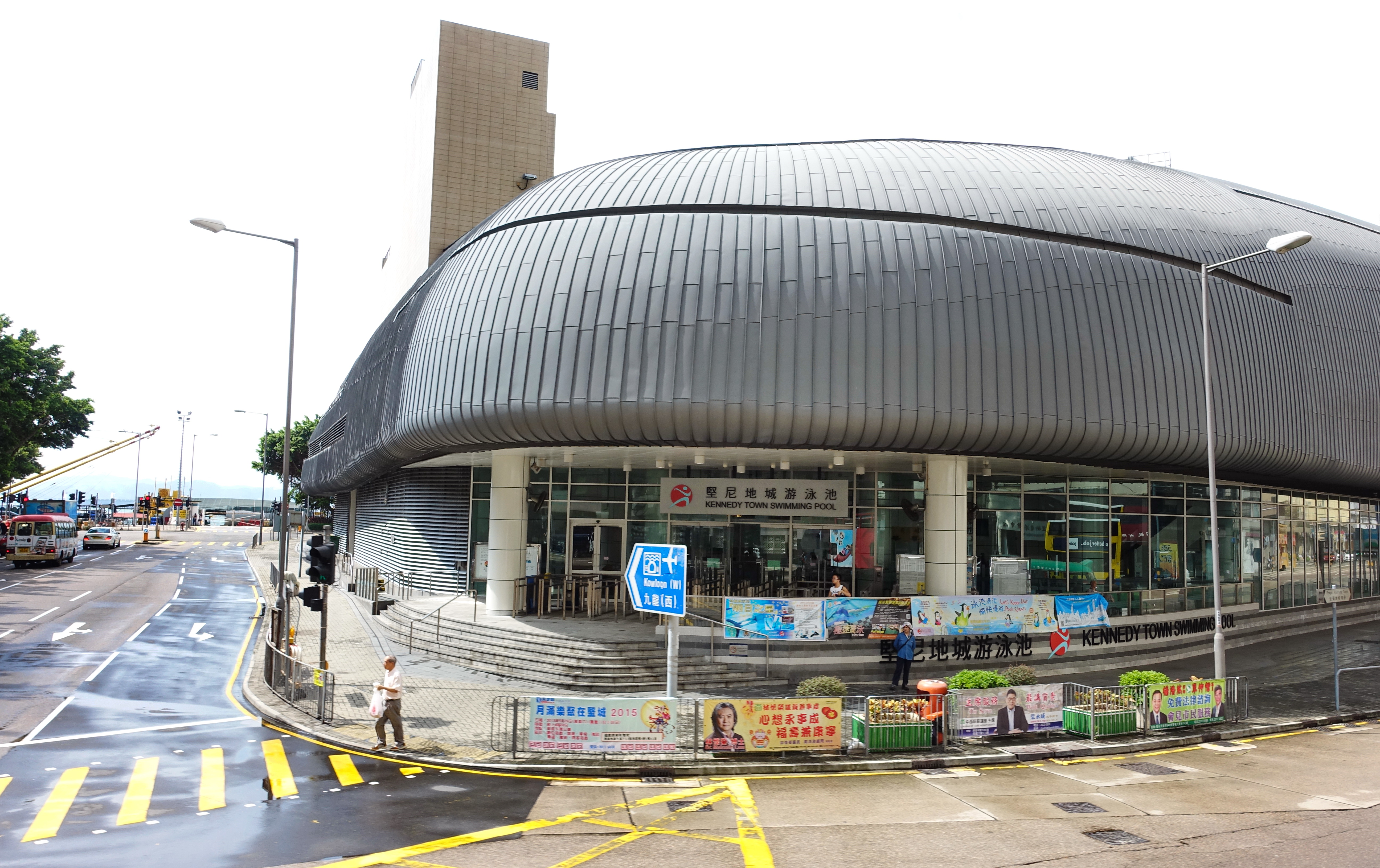 Kennedy Town Swimming Pool and Sai Cheung Street North, Hong Kong.